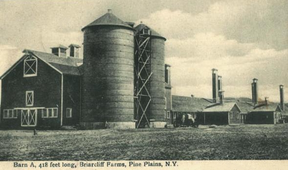 Briarcliff Farms in Pine Plains. The postcard is stamped 1910, therefore making its publication pre-1923.